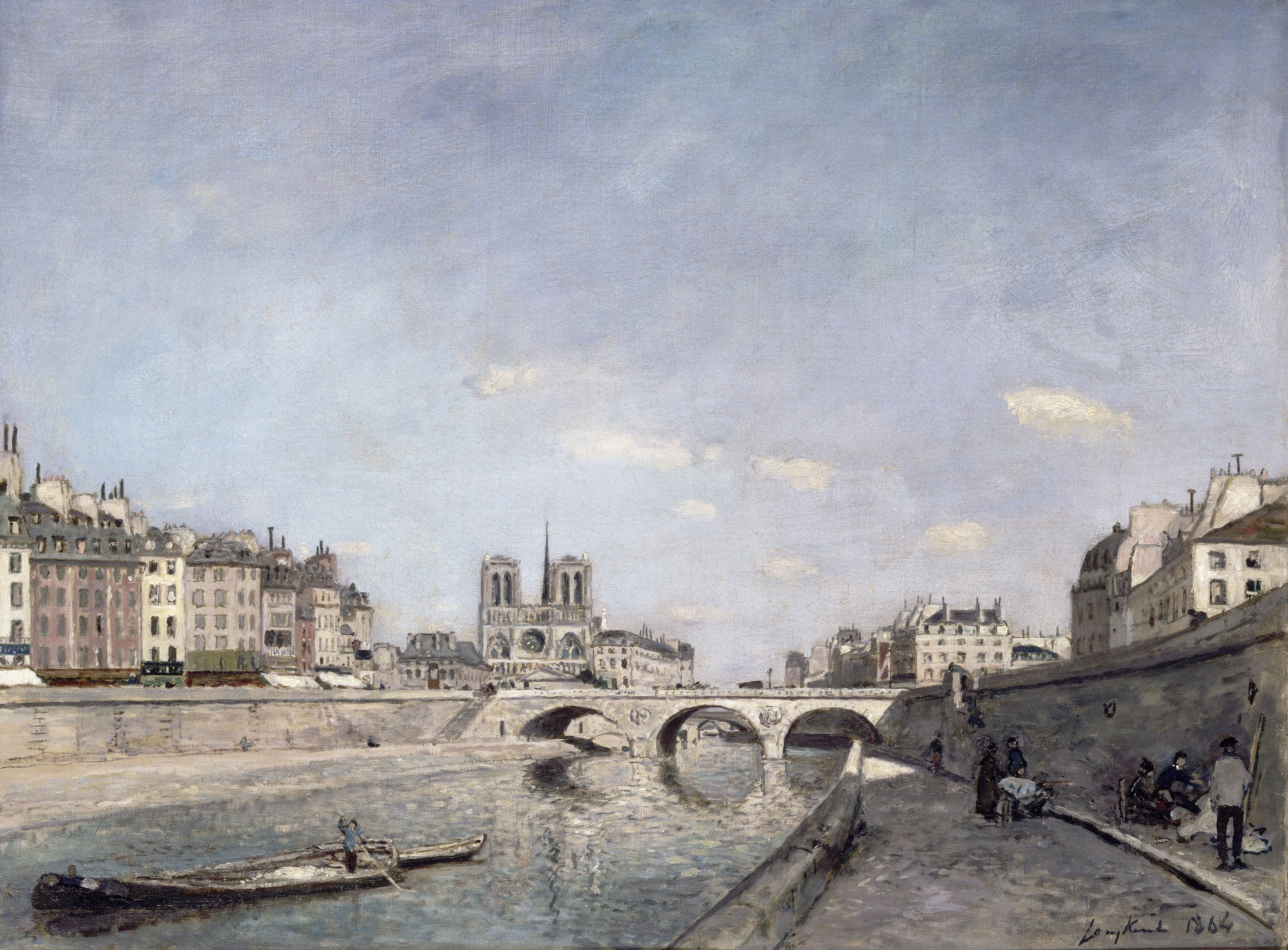 The Seine and Notre-Dame in Paris, 1864 Johan Jongkind, Musée d'Orsay, Paris, 42 x 56,5 cm, Oil on Canvas